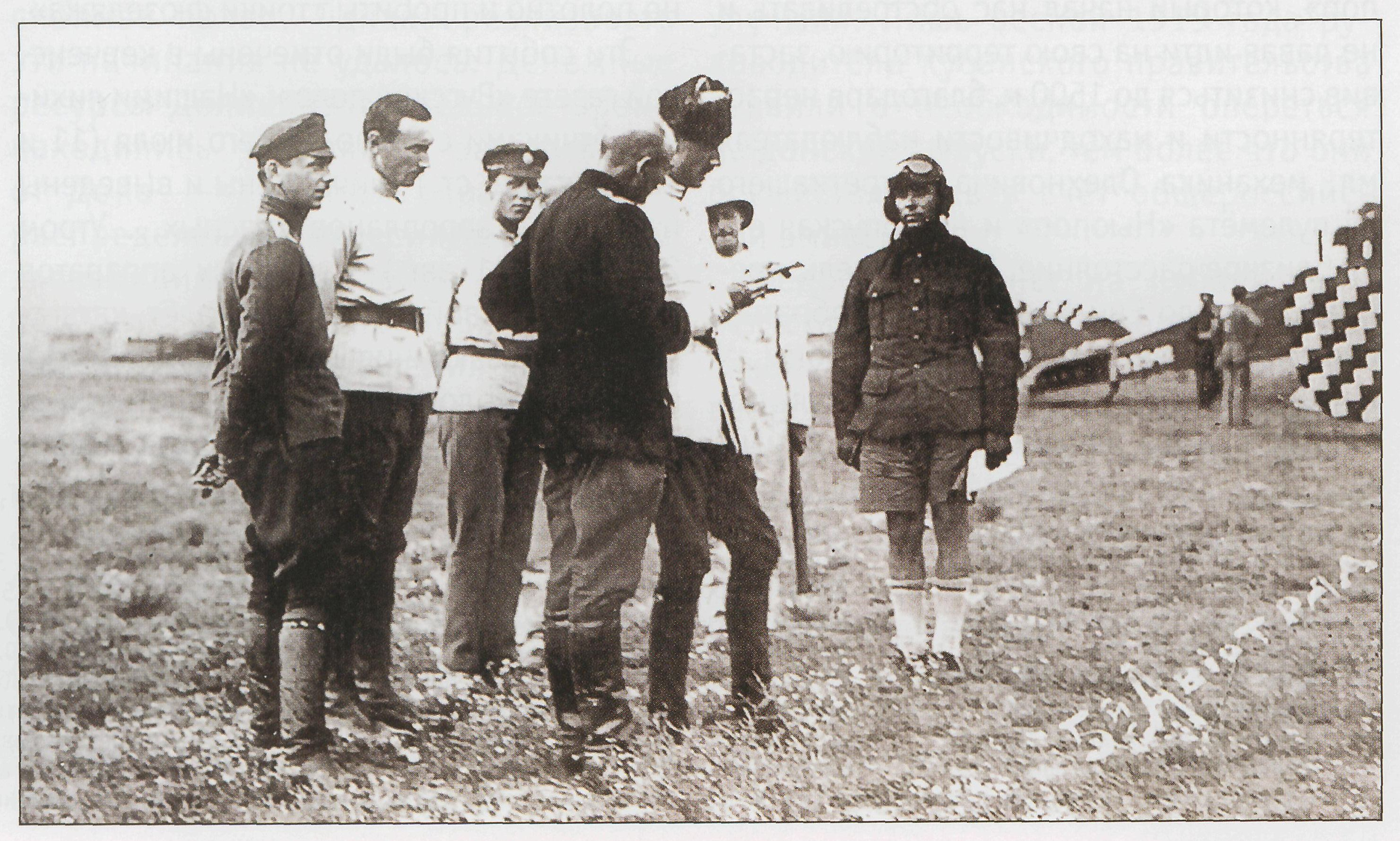 Pyotr Wrangel and pilots